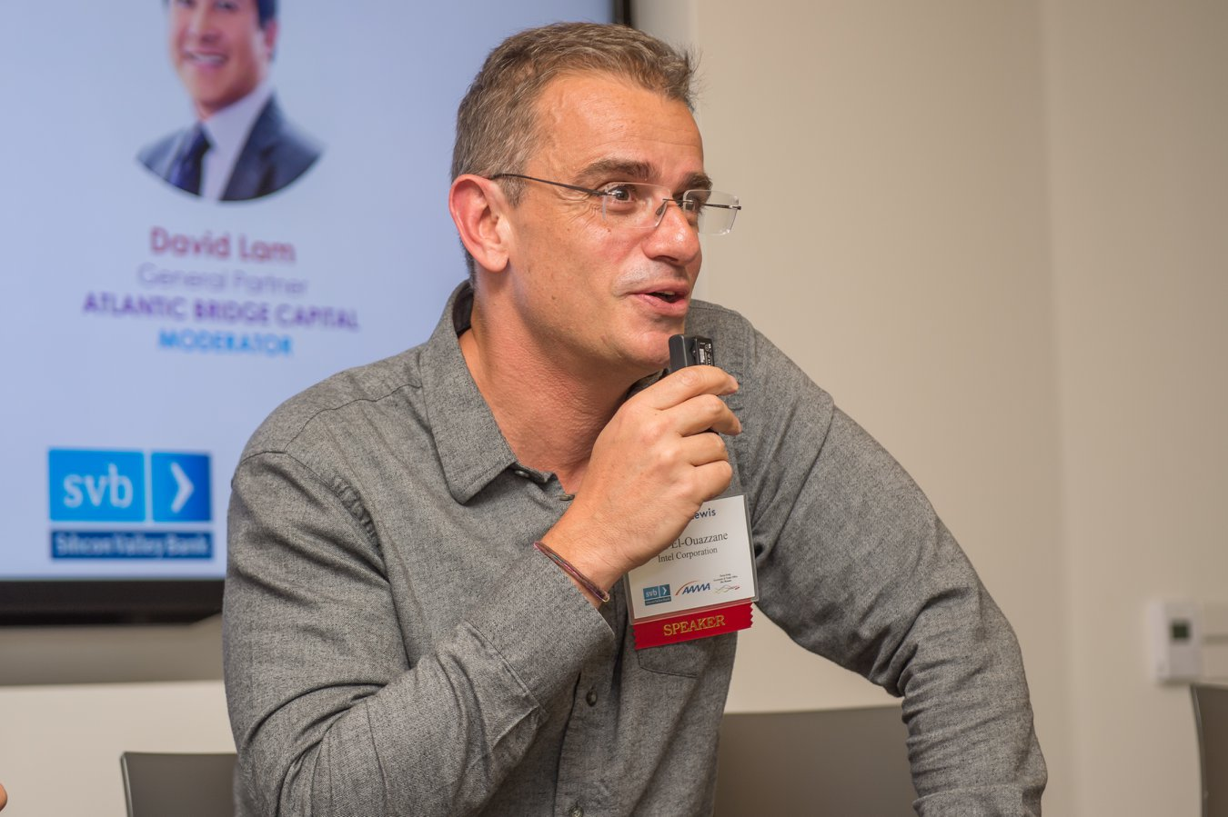 El-Ouazzane speaking at AAMA Deep Tech Conference in 2018